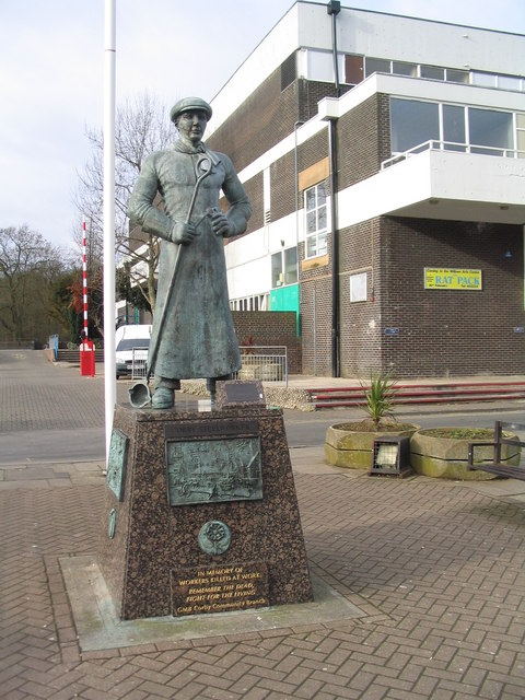 Memorial to Corby steel workers A small village up to the 1930s, Corby then boomed when steel started to be made from the locally abundant Jurassic ironstone; many of the workers coming from Scotland. Hard-hit by the closure of the steel works in the 1980s, the town has started to attract new businesses.